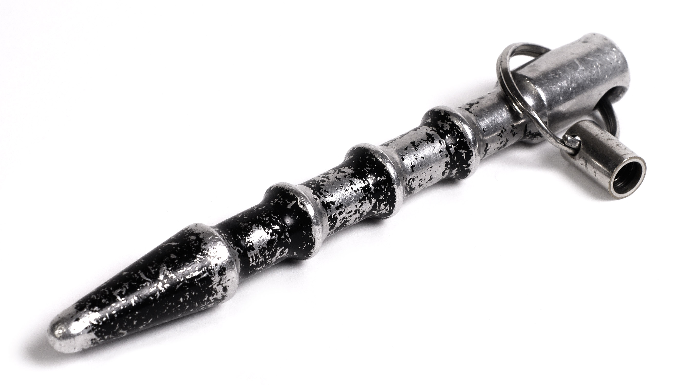 An aluminum kubotan, meant for a key chain.